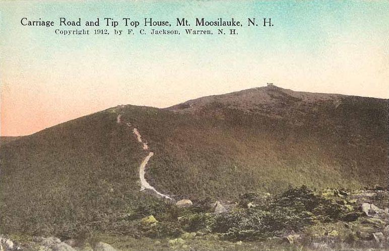 Carriage road and The Tip Top House, Benton, New Hampshire. Opened in 1860 as The Prospect House, the hotel atop Mount Moosilauke was given to Dartmouth College in 1920, then burned in 1942. The carriage road was built in 1870.